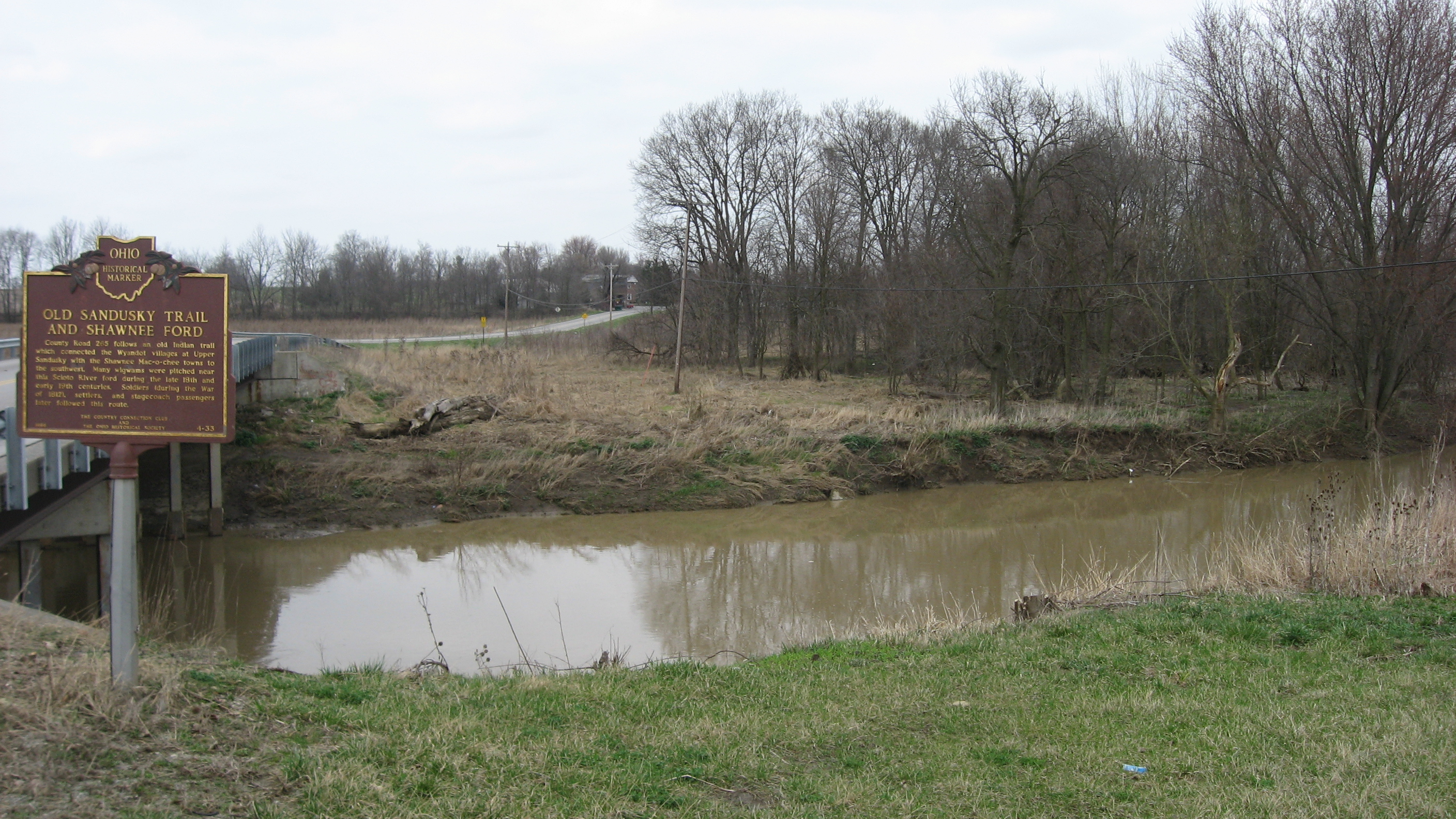 Overview of the Shawnee Ford site, where the old Bellefontaine/Sandusky Road crosses the Scioto River. Located along County Road 265 just south of Pfeiffer in Dudley Township, Hardin County, Ohio, United States, it was a substantial transit point in the area's early history.